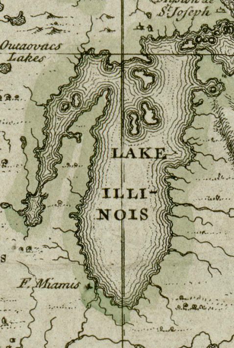 This is a section of a map that is part of the Darlington map collection housed in the Archives Service Center, University Library System, University of Pittsburgh, [1] Pittsburgh, PA US The original map from which this portion was taken can be found here.